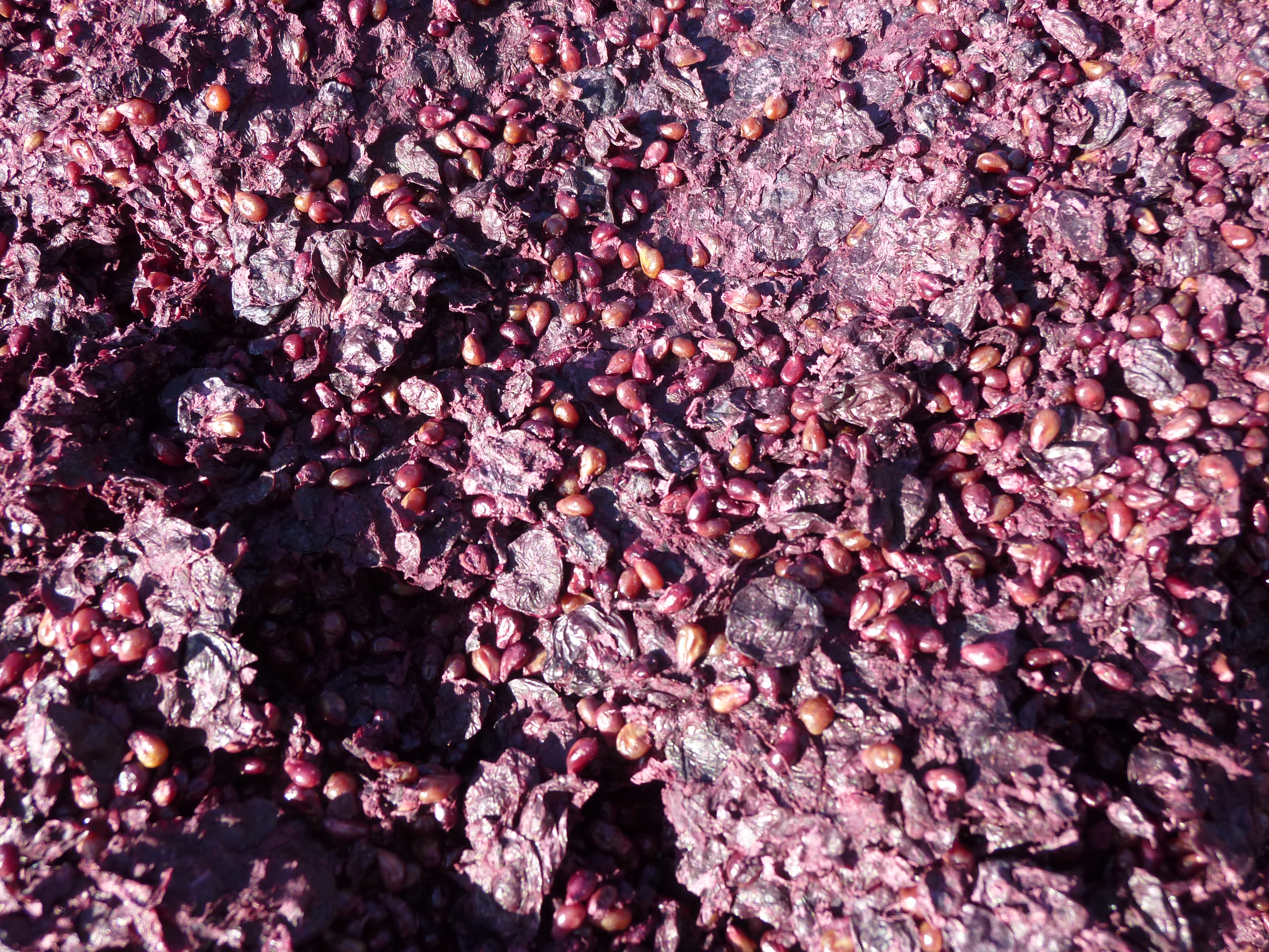 Close up of the pomace (grape skins, seeds, etc) left over after the wine has been pressed and juice removed.